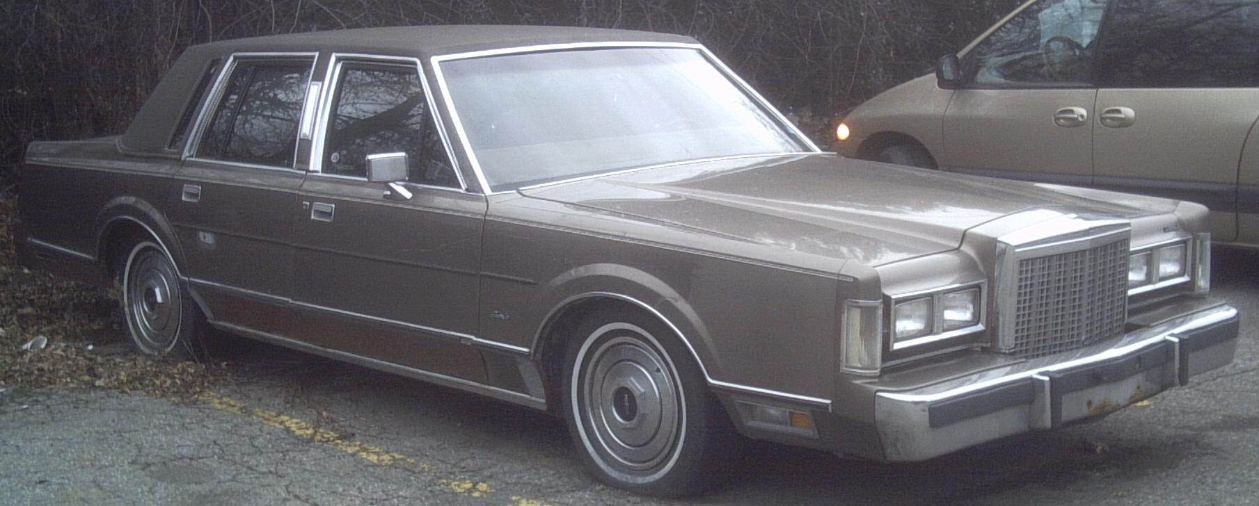 1985-1987 Lincoln Town Car photographed in Montreal, Quebec, Canada.